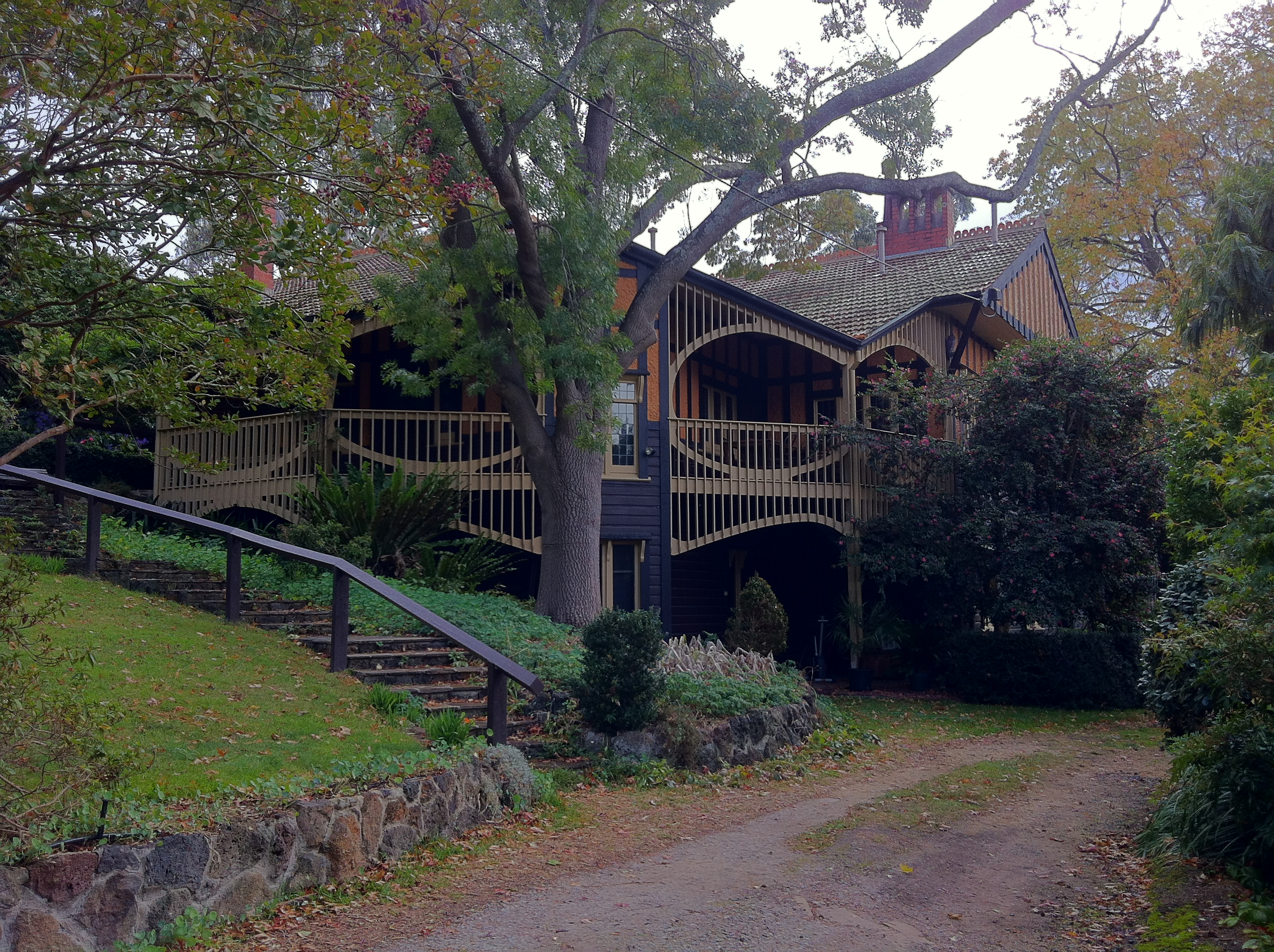 Chadwick house, designed by architect Harold Desbrowe Anneare in 1903, located in Eaglemont, Victoria, Australia.